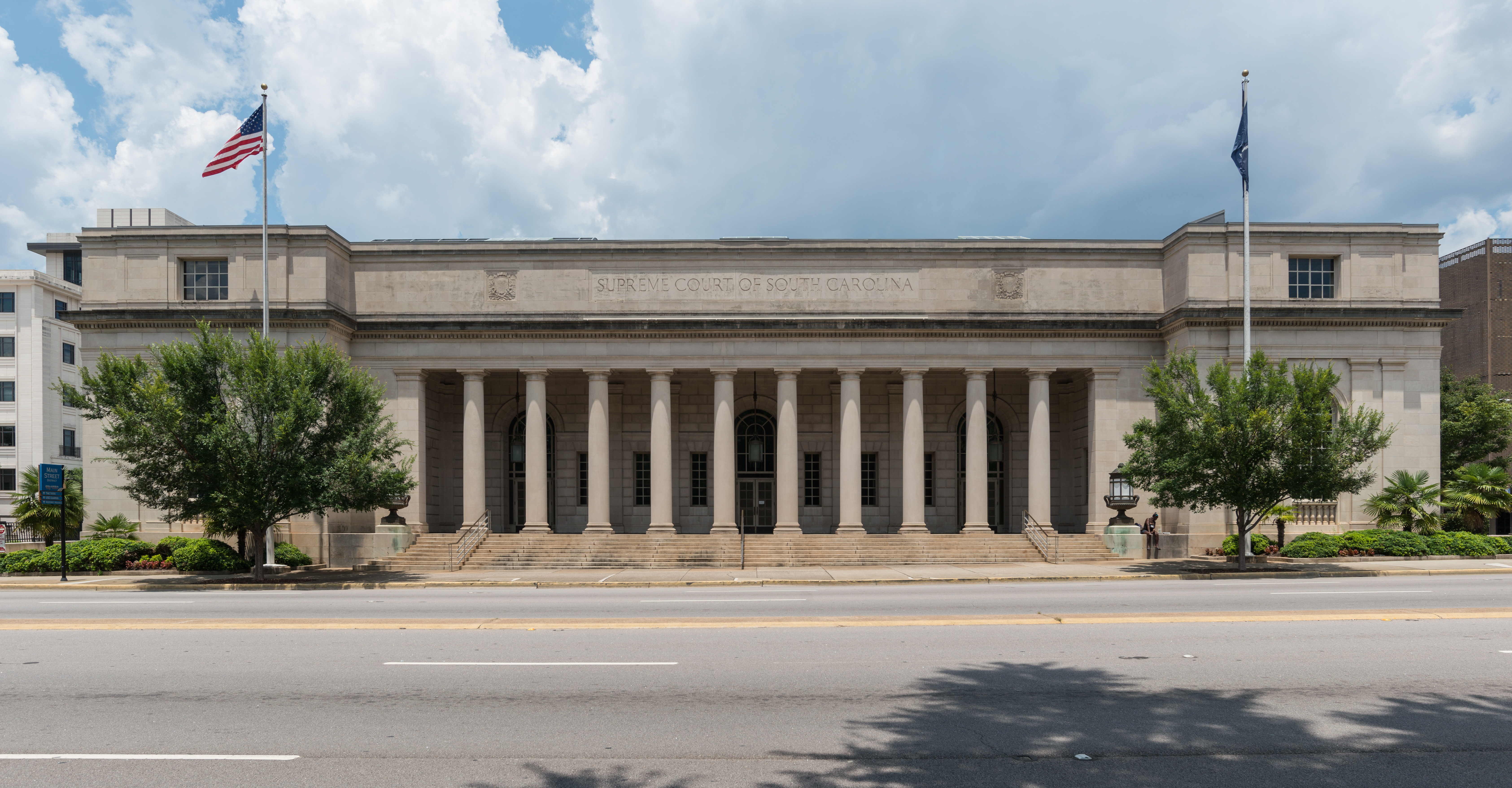 A south view of the Supreme Court of South Carolina, Columbia